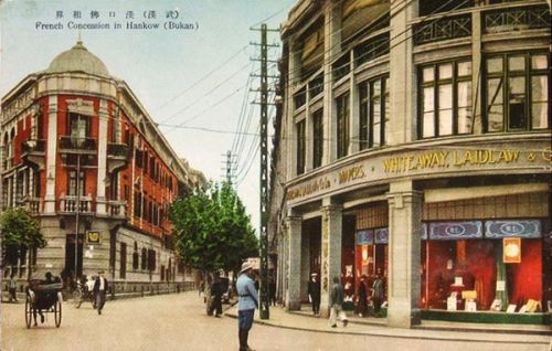 A Postcard of Wuhan Bund from 1927